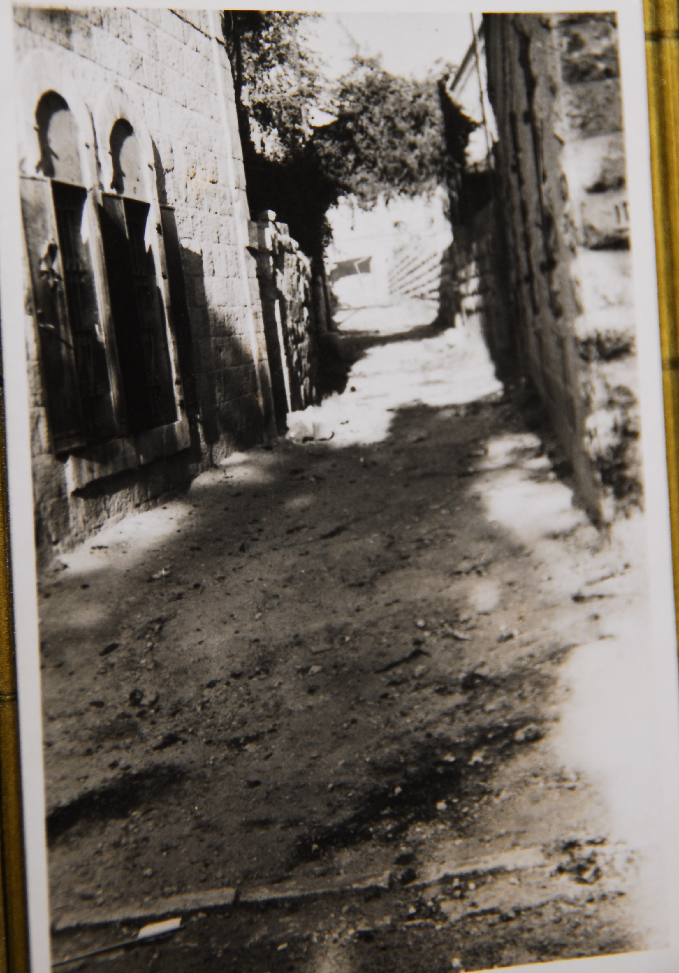 Israel Defense Forces - "Death Alley" near Nablus Road, immediately after the battle. Here fell 5 paratroopers from the 28th Battalion.